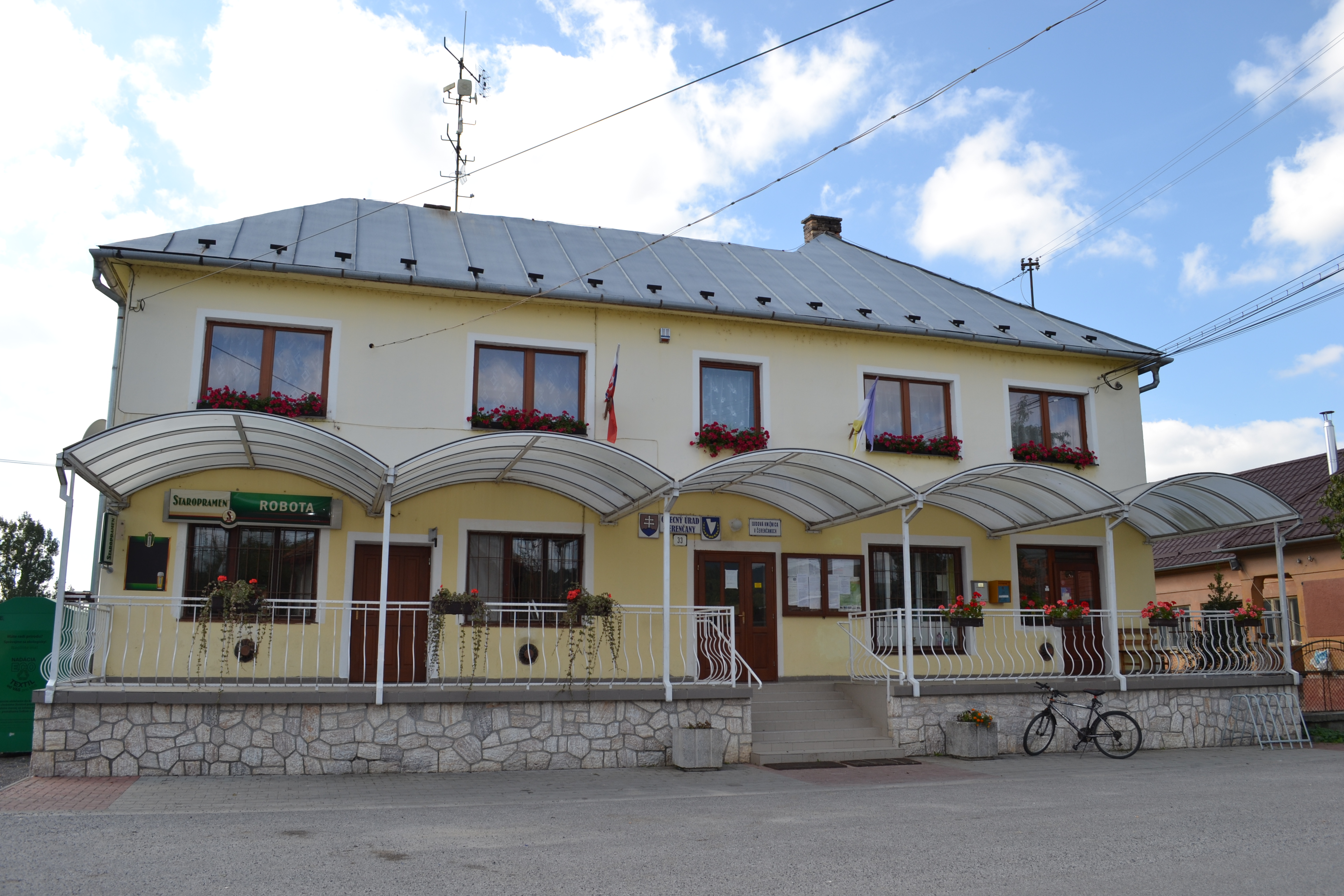 Municipal office in the village ČerenčanySlovenčina: Obecný úrad v Čerenčanoch